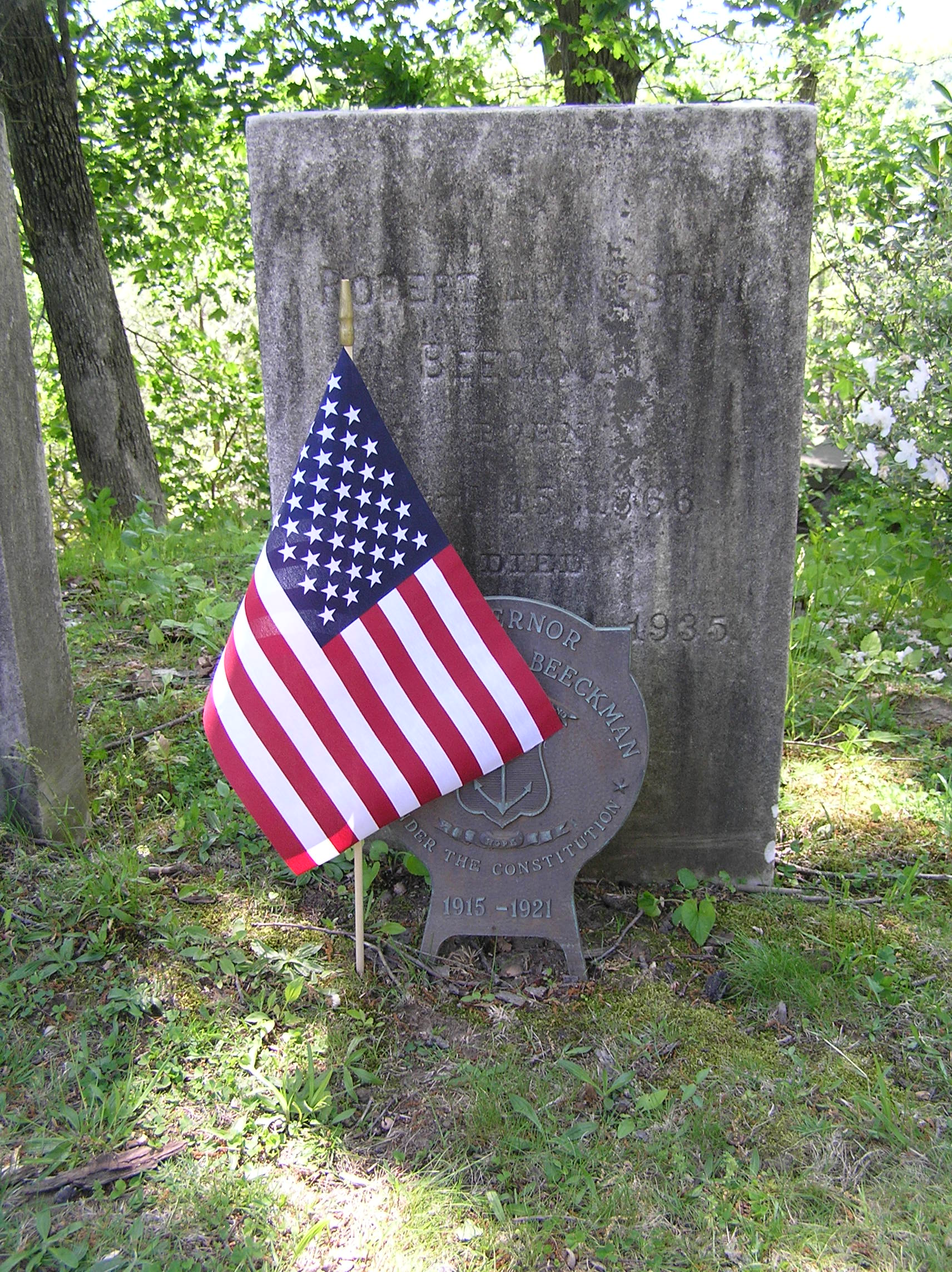 The gravesite of Robert Livingston Beeckman in Sleepy Hollow Cemetery